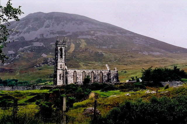 Poison Glen area - Derelict church